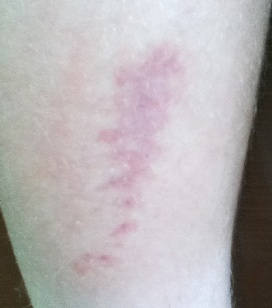 Catepillar sting twenty-four hours after occurrence.